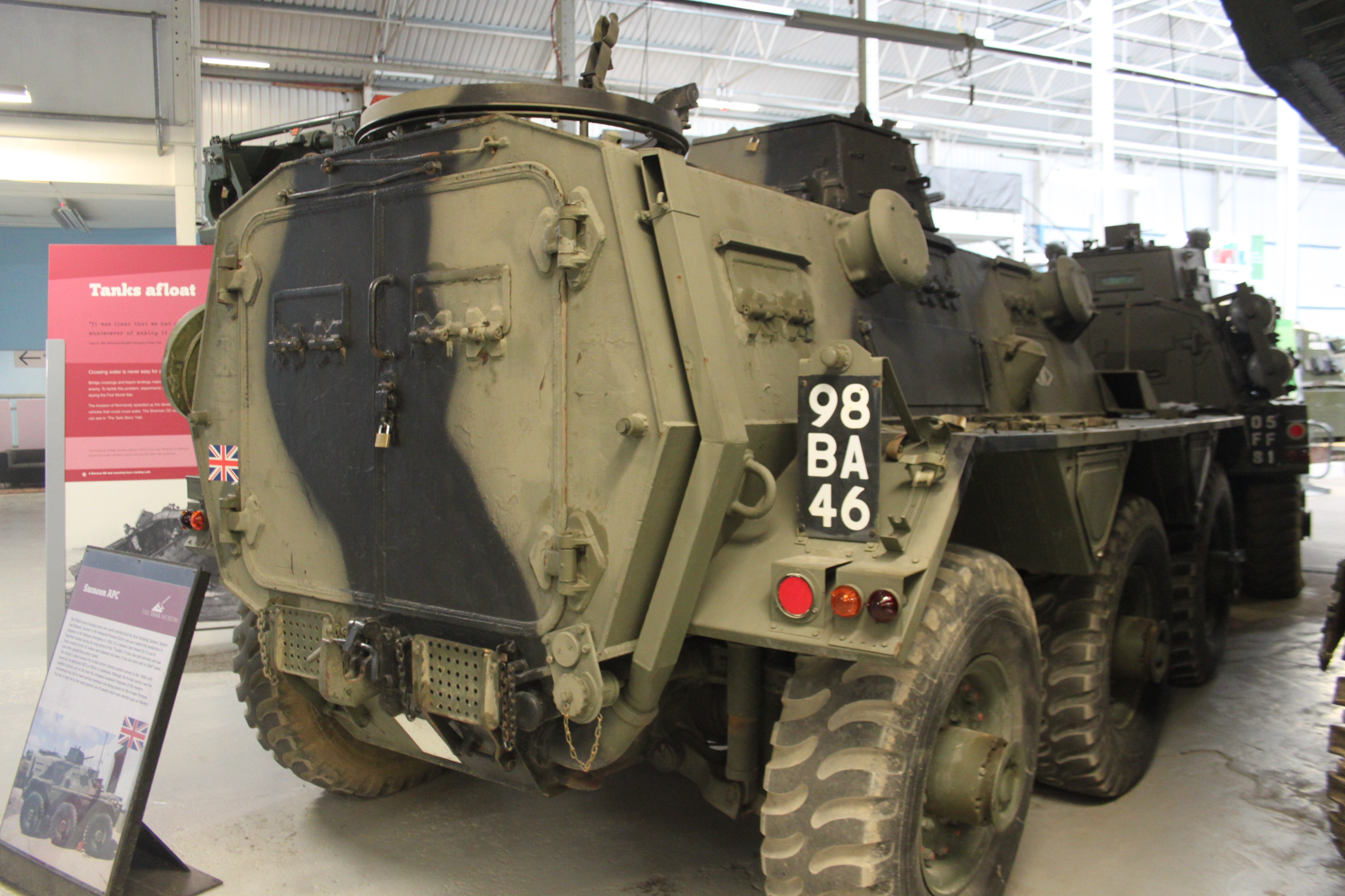 Saracen APC at the Tank Museum